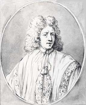 Ignatius Walvis (1653-1714), priest and historian in Gouda, The Netherlands.